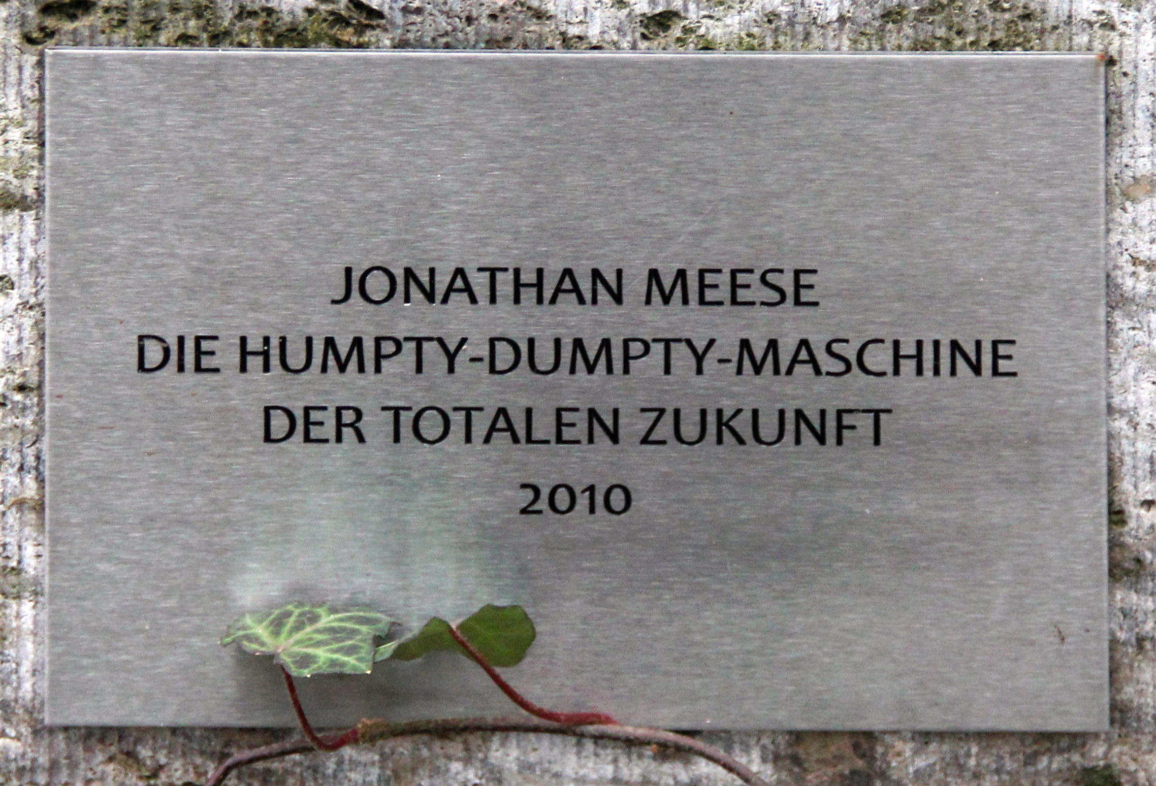 Memorial plaque, Jonathan Meese, Bodestraße 1-3, Berlin-Mitte, Germany